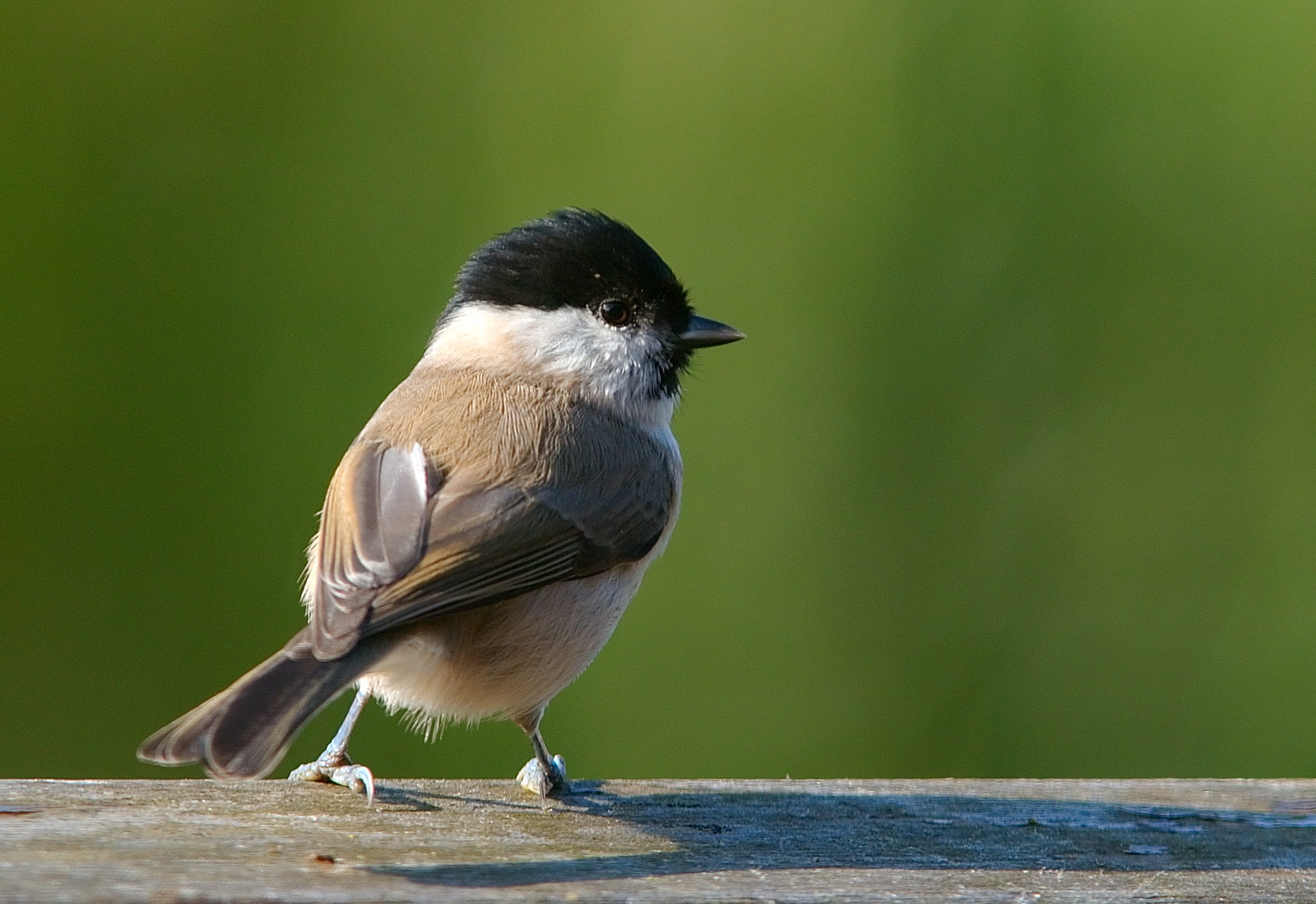 Marsh Tit Poecile palustris